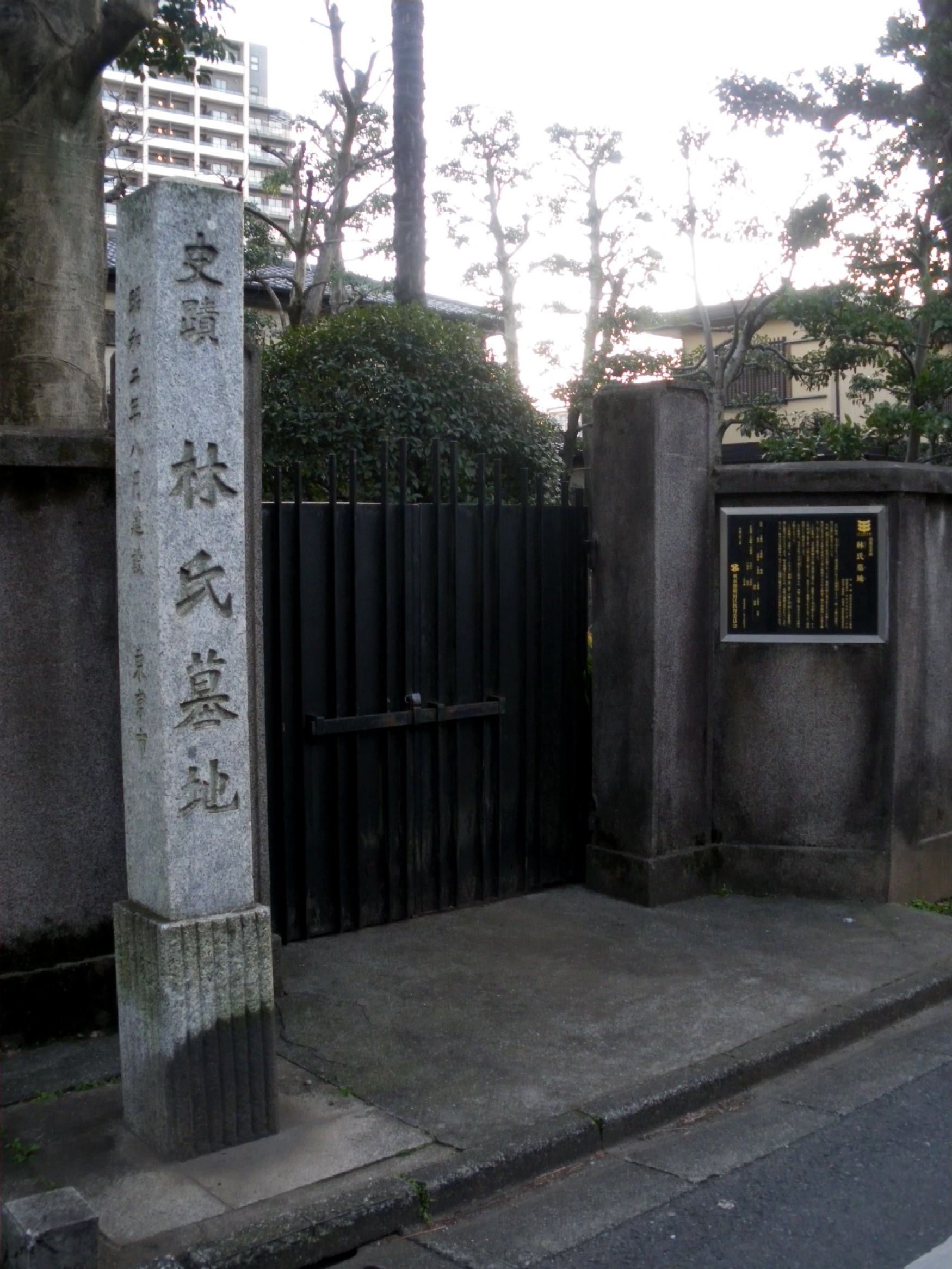 A photo of the gate of grave of Hayashi family(Hayashi family is the family of neo-Confucian philosophers of the Edo era.) at Ichigayayamabushicho,Shinjuku-ku,Tokyo,Japan.